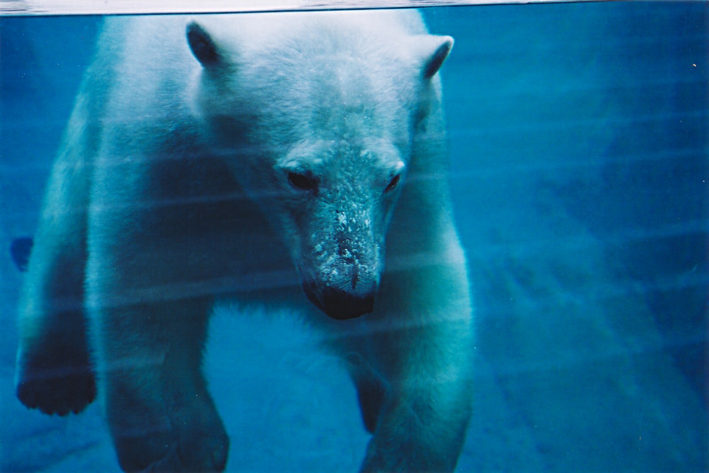 Polar bear underwater at the Parc Aquarium du Québec (Quebec city, Quebec, Canada)